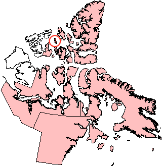 Base image created by Keith Edkins as GFDL, modified by Tim Vasquez.